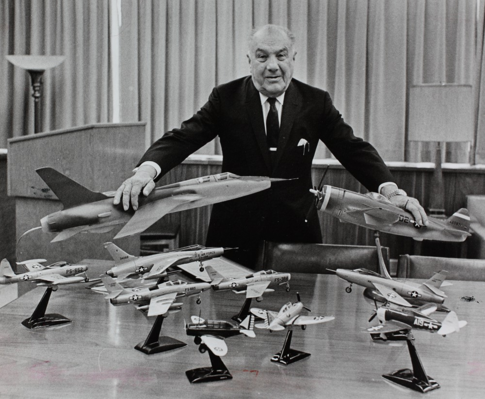 PictionID:41566255 - Title:Seversky Alexander Kartveli, Chief Engineer, Republic Aviation - Catalog:15_002863 - Filename:15_002863.TIF - Image from the Charles Daniels Photo Collection album "Seversky, Republic and P-47"----PLEASE TAG this image with any information you know about it, so that we can permanently store this data with the original image file in our Digital Asset Management System.----SOURCE INSTITUTION: San Diego Air and Space Museum Archive